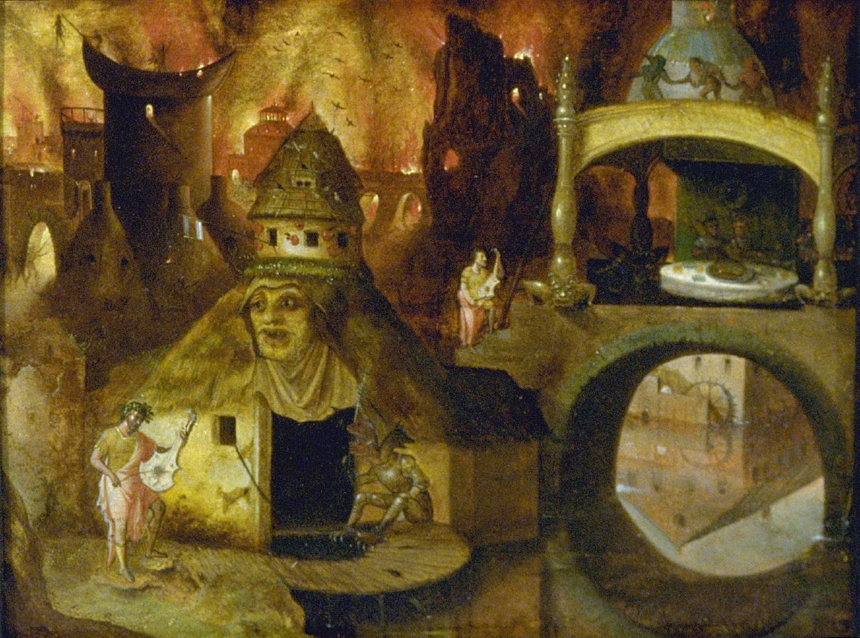 This image is available from the Netherlands Institute for Art Historyunder digital ID 43397. This tag does not indicate the copyright status of the attached work. A normal copyright tag is still required. See Commons:Licensing.